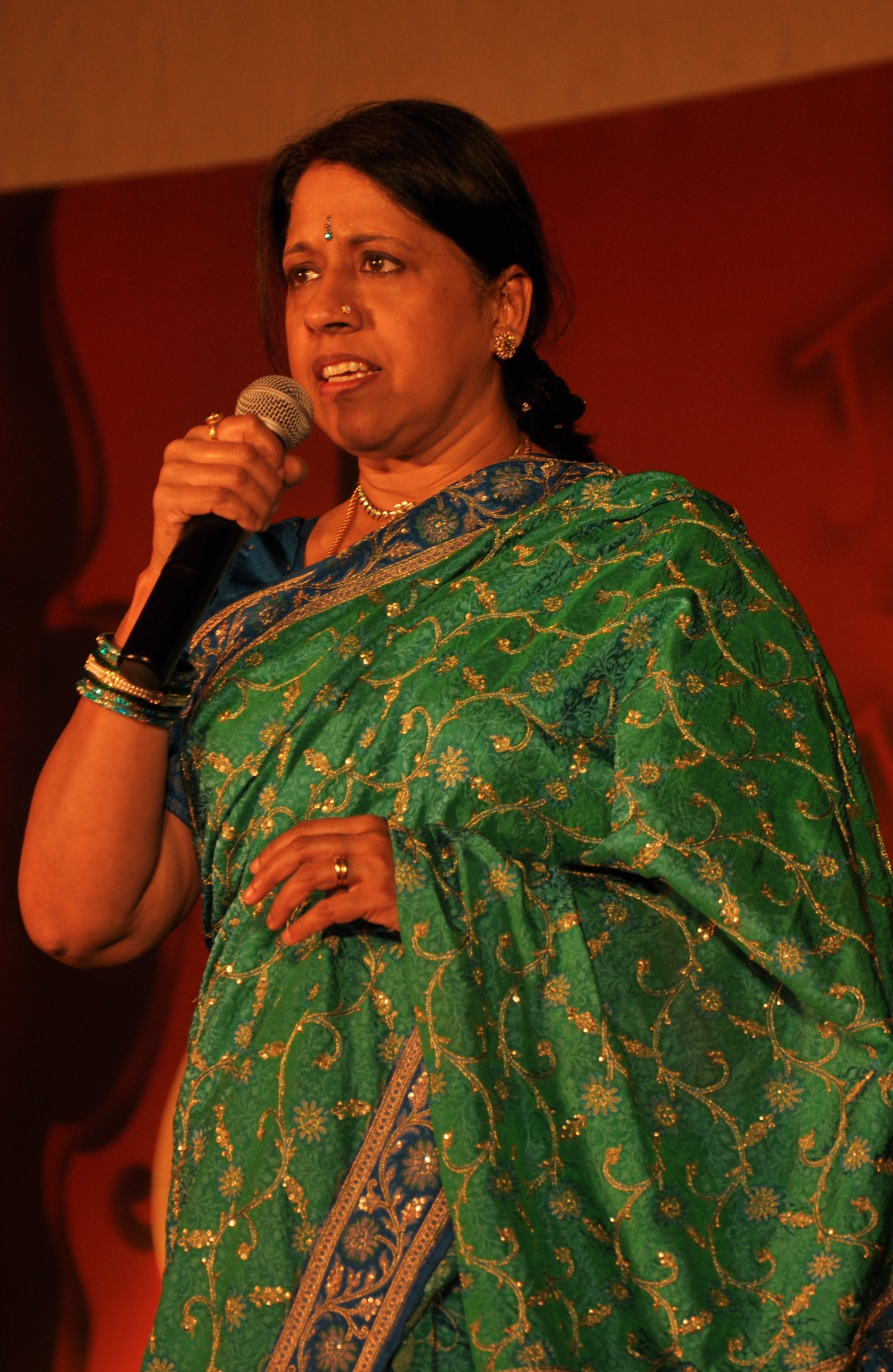 Kavita Krishnamurthy (Hindi: कविता कृष्णमूर्ति सुब्रमण्यम; Tamil: கவிதா கிருஷ்ணமுர்த்தி சுப்பிரமணியம்) is one of the most famous Indian film playback singers.